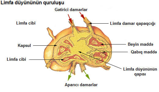 Lymph node